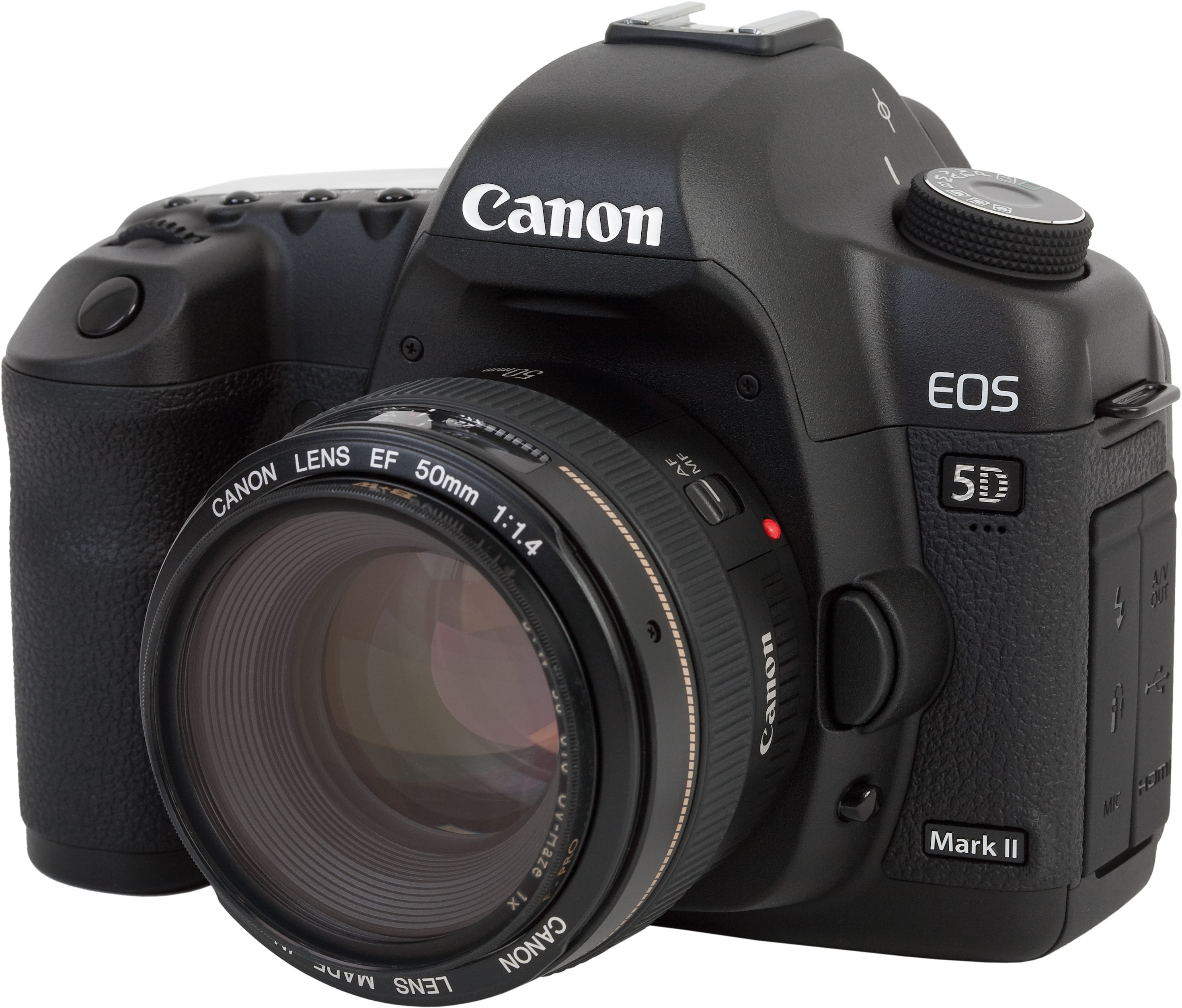 Canon EOS 5D Mark II camera, with Canon EF 50mm f/1.4 USM lens (fitted with a B+W 010 UV-Haze 58mm filter).